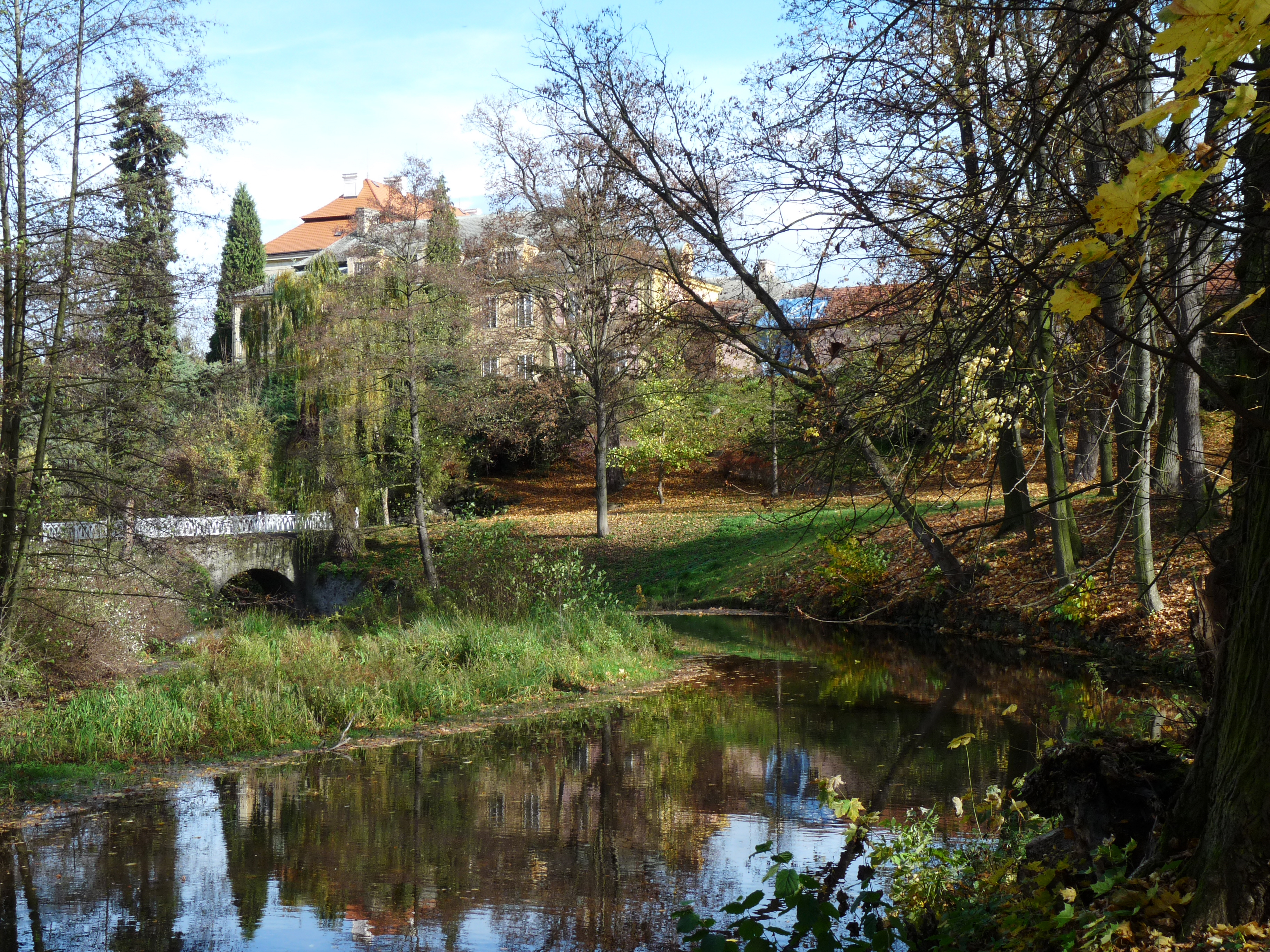 Castle park in the municipality of Krásný Dvůr in the Louny District, Ústí nad Labem Region, Czech Republic.